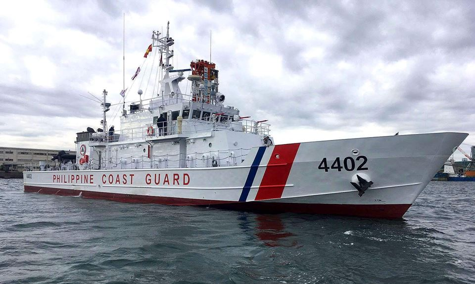 The Philippine Coast Guard ship BRP Malabrigo prior to delivery from Japan to the Philippines.